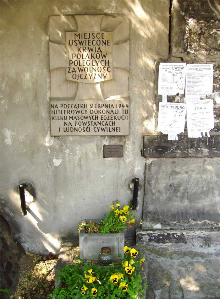 Plaque at 140a Wolska Street in Warsaw (near the gate of St. Lawrence church) commemorating hundreds of Polish civilians murdered in this place by German troops during so-called Wola Massacre (in the first half of August 1944 – first days of Warsaw Uprising).